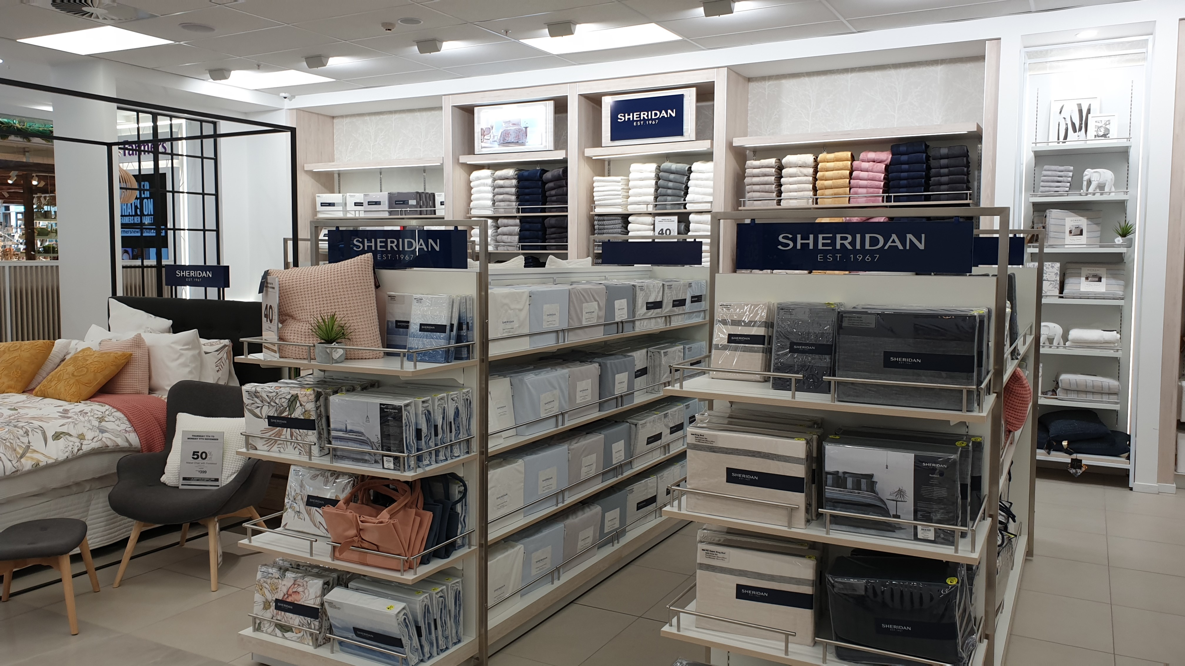 Sheridan bedding & towels concept area within Homeware at Farmers department store in Newmarket, New Zealand in 2019.